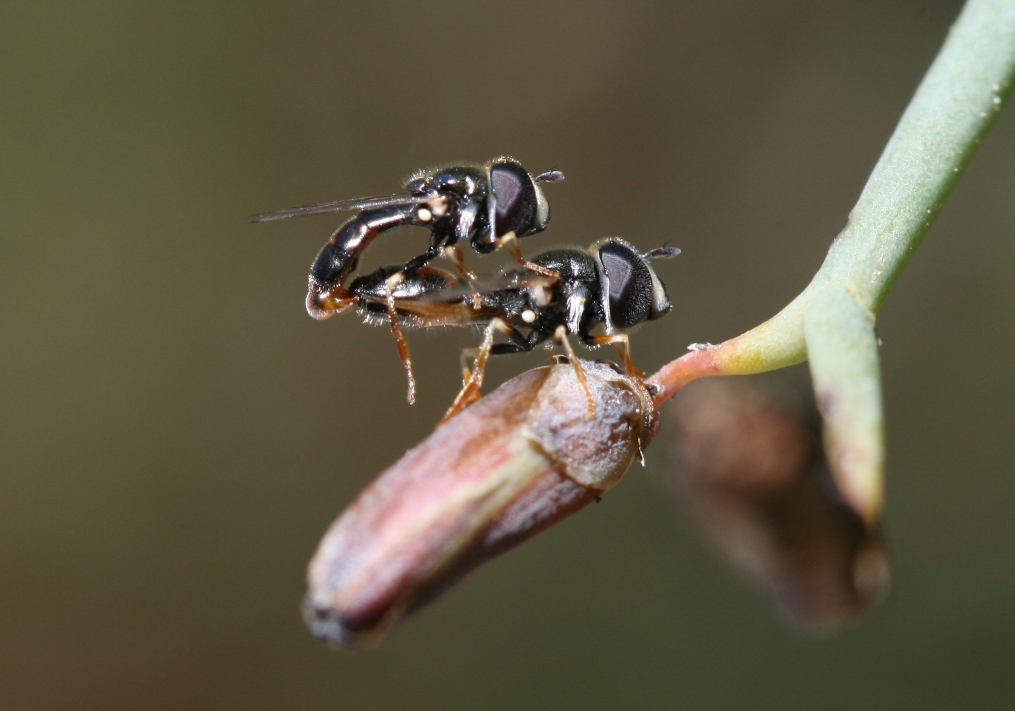 Photographed Playa Blanca, Lanzarote, Spain. Difficult genus to identify to species without microscopic study of male genitalia. On Lanzarote though only P. tibialis present as far as is known.